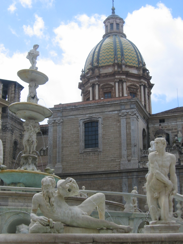 Author : Urban Description : Palermo, Sicilia. Fontana Pretoria with San Giuseppe dei Teatini's Dome in the background. Body : Canon Powershot A80 Date : August, 2005